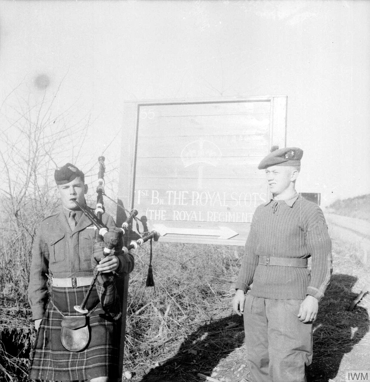 IWM caption : THE KOREAN WAR 1950 - 1953. Piper Robert Burn (left) and Private Adam Hogg (right), both serving with the 1st Battalion, The Royal Scots, whose playing was included in a broadcast to Britain on Christmas Day in the BBC Round the World programme.